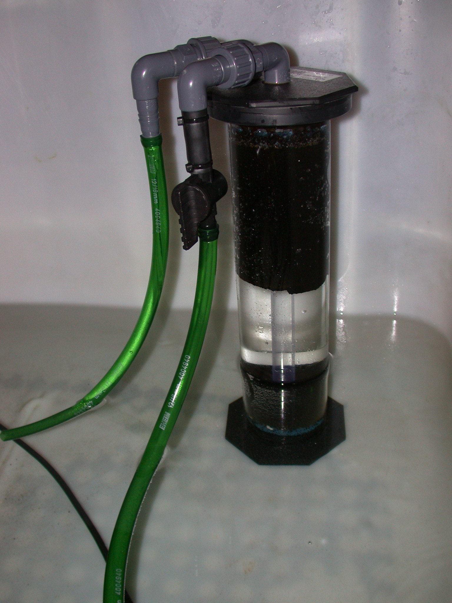 A Deltec phosphate reactor filled with Rowaphos used in marine aquariums to lower phosphate levels. Water enters at the top and follows a small central tube down to the bottom where it raises through the large tube through the phosphate removing media.